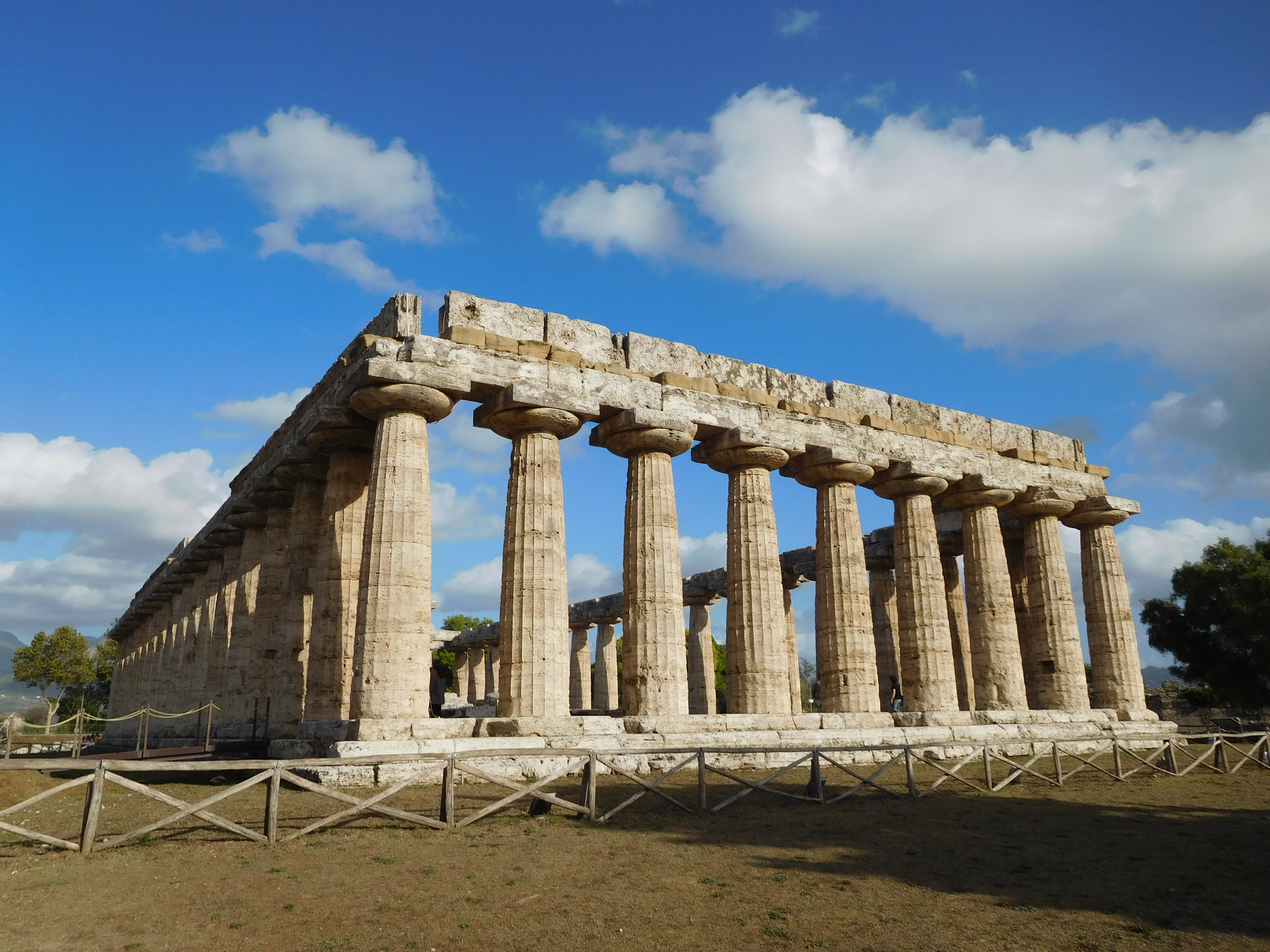 Temple of Hera (Paestum) This is a photo of a monument which is part of cultural heritage of Italy.